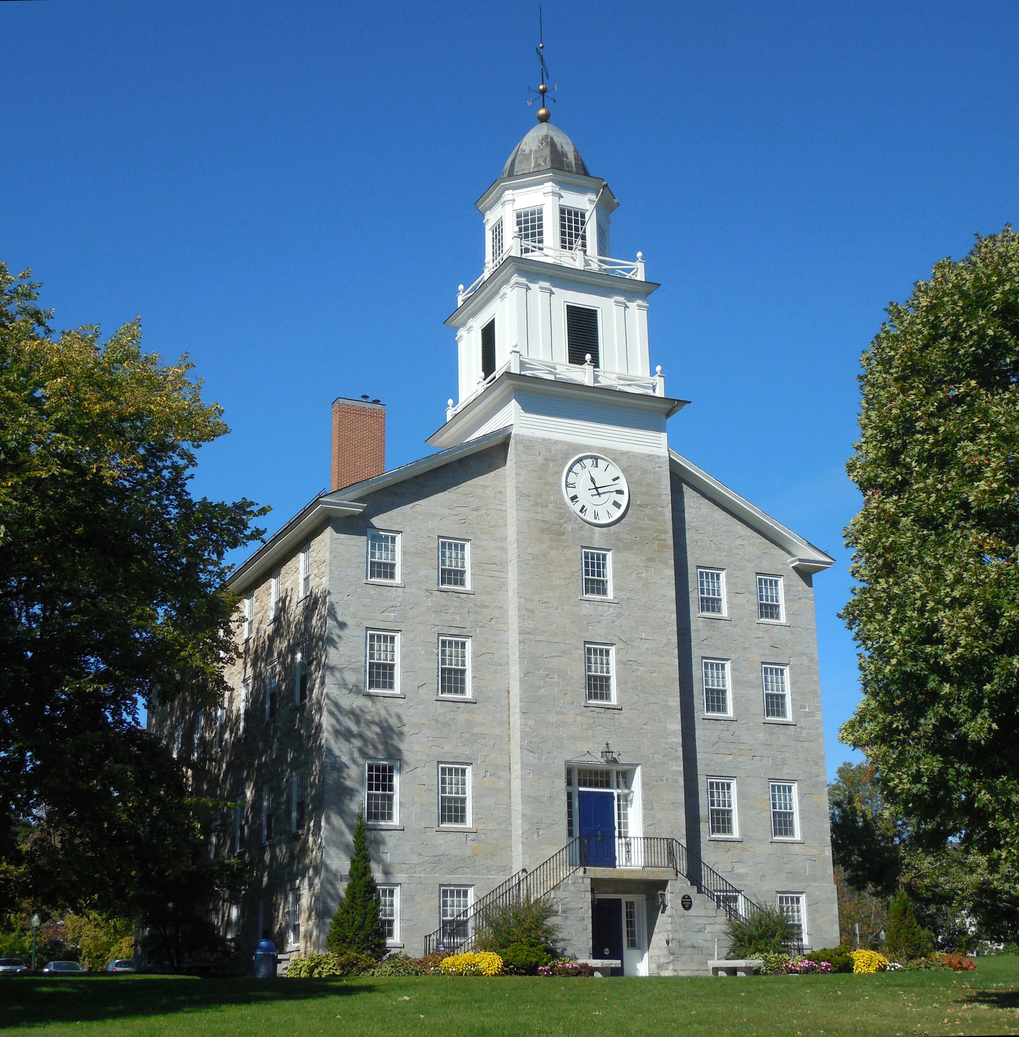 Old Chapel at Middlebury College, Middlebury, Vermont, September 2016.